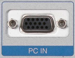 VGA socket